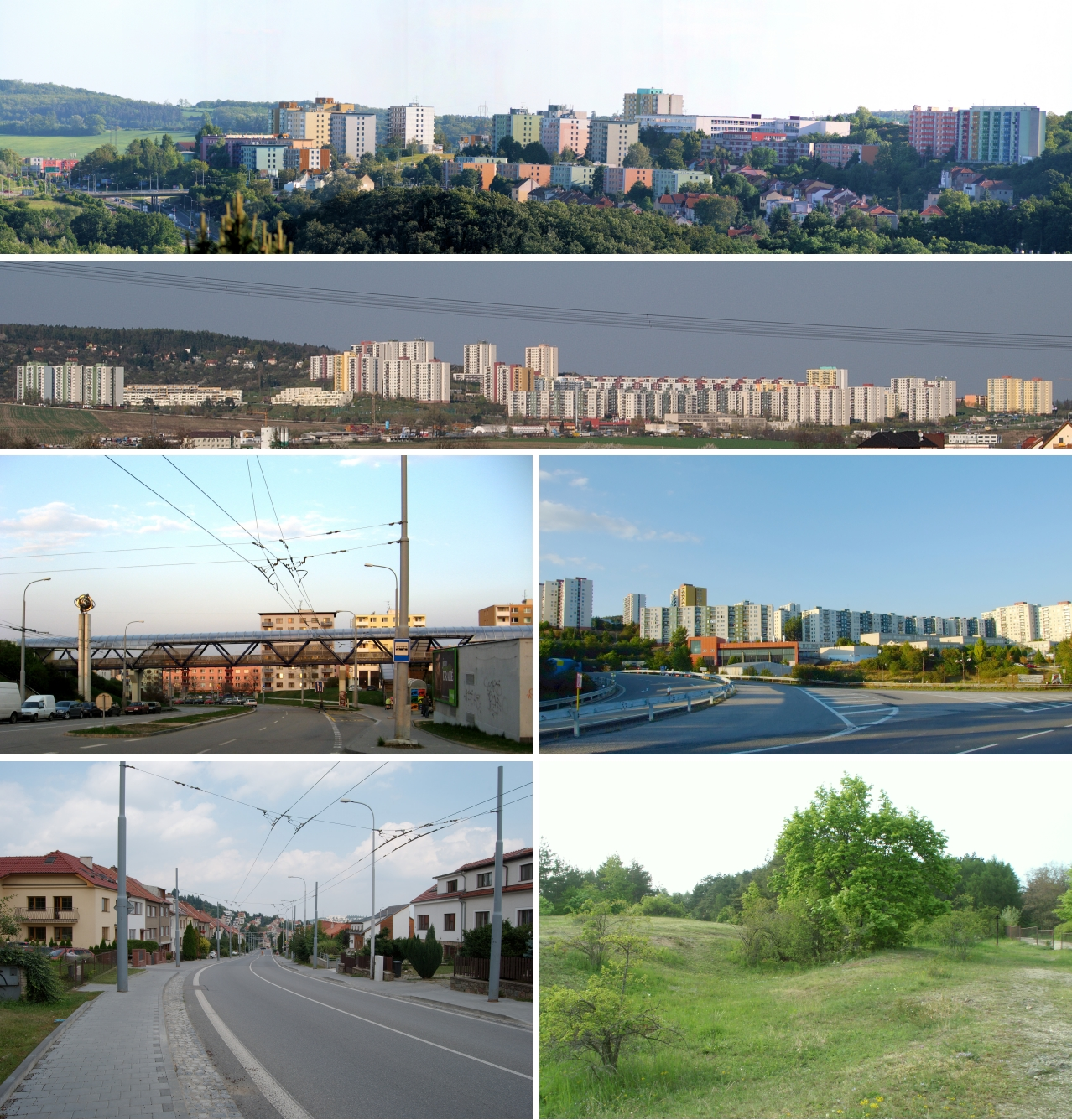 Panorama of Brno-Nový Lískovec and Kamenný vrch, Czech Republic.